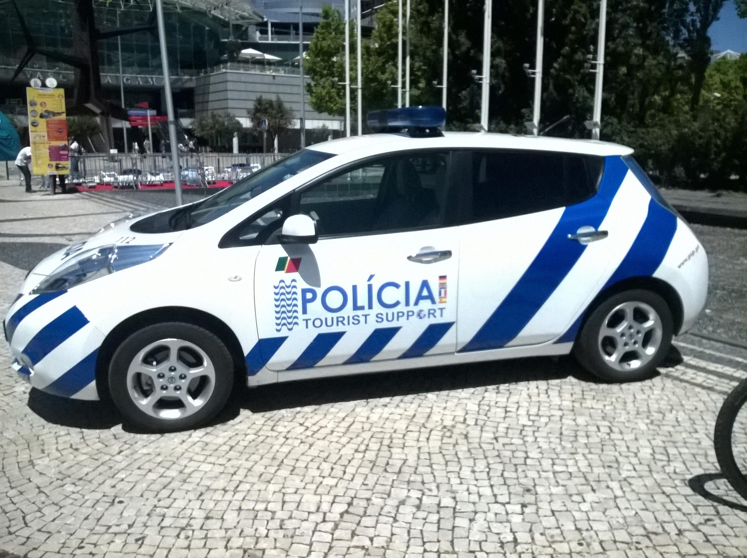 Lisbon Public Security Police Tourism Support electrical vehicle